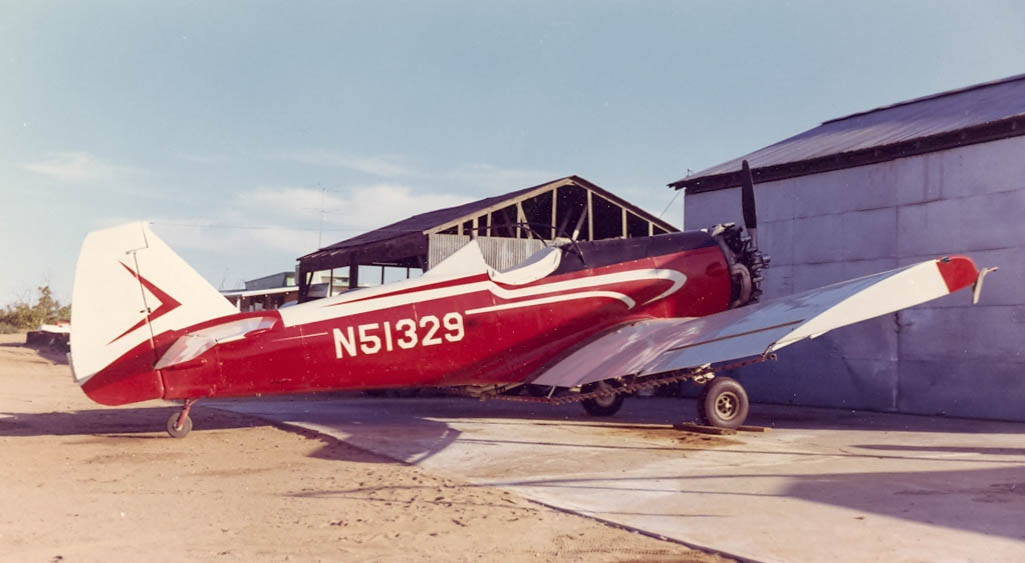 PT-19 rebuilt as a duster with all-metal covering, large wings, modified cockpit and tank etc. Lycoming R-680 engine. Brentwood, CA, June 1964.